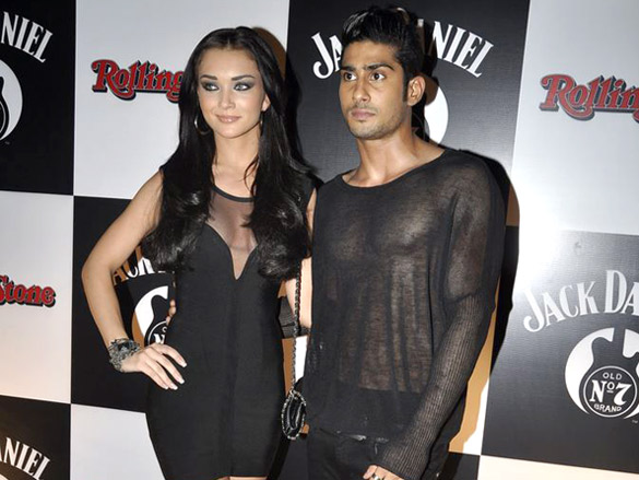 Amy Jackson at Jack Daniels Rock Awards.